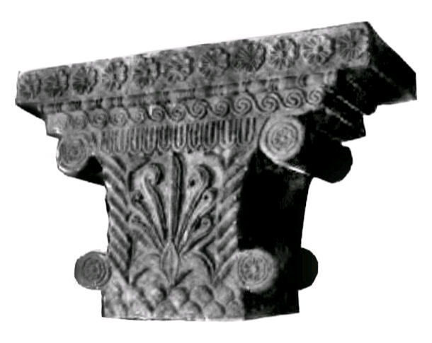 Pataliputra capital front. Monumental capital with Greek artistic influence, discovered in 1895 at the royal palace in Pataliputra, India, by L.A. Waddell. Dated to the early Mauryan period. It has been described as a "Perso-Ionic capital" (Journal of the Royal Asiatic Society of Great Britain and Ireland). Excavated at Bulandi Bagh in Patna. Patna Museum. Length 49 inches (1.23 meters), height 33.5 inches (0.85 meter). Unpolished buff sandstone. A much more modern photograph. A 2018 photograph while at an exhibit in Mumbai. and here also.